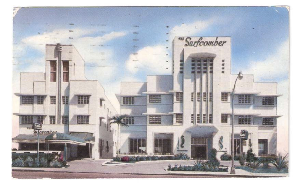 The Surfcomber Hotel circa 1950